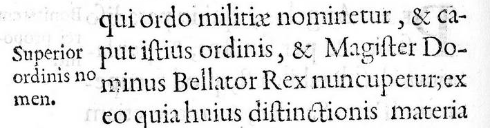 page of the liber de fine of Ramon Llull where appears the expression of rex bellator